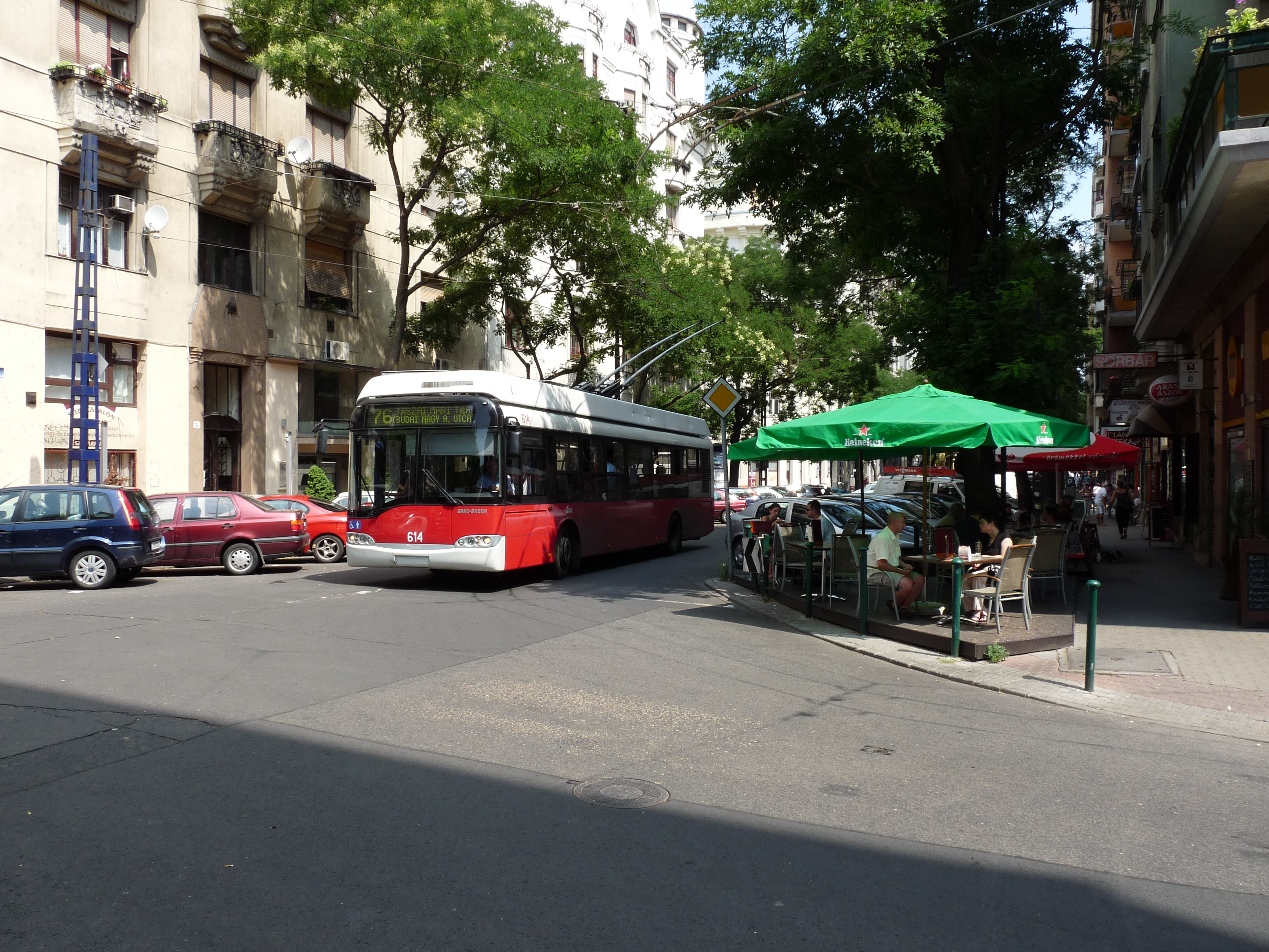 Trolleybus no. 76 turning left from the Pozsonyi road Ganz-Skoda Trollino 12 make